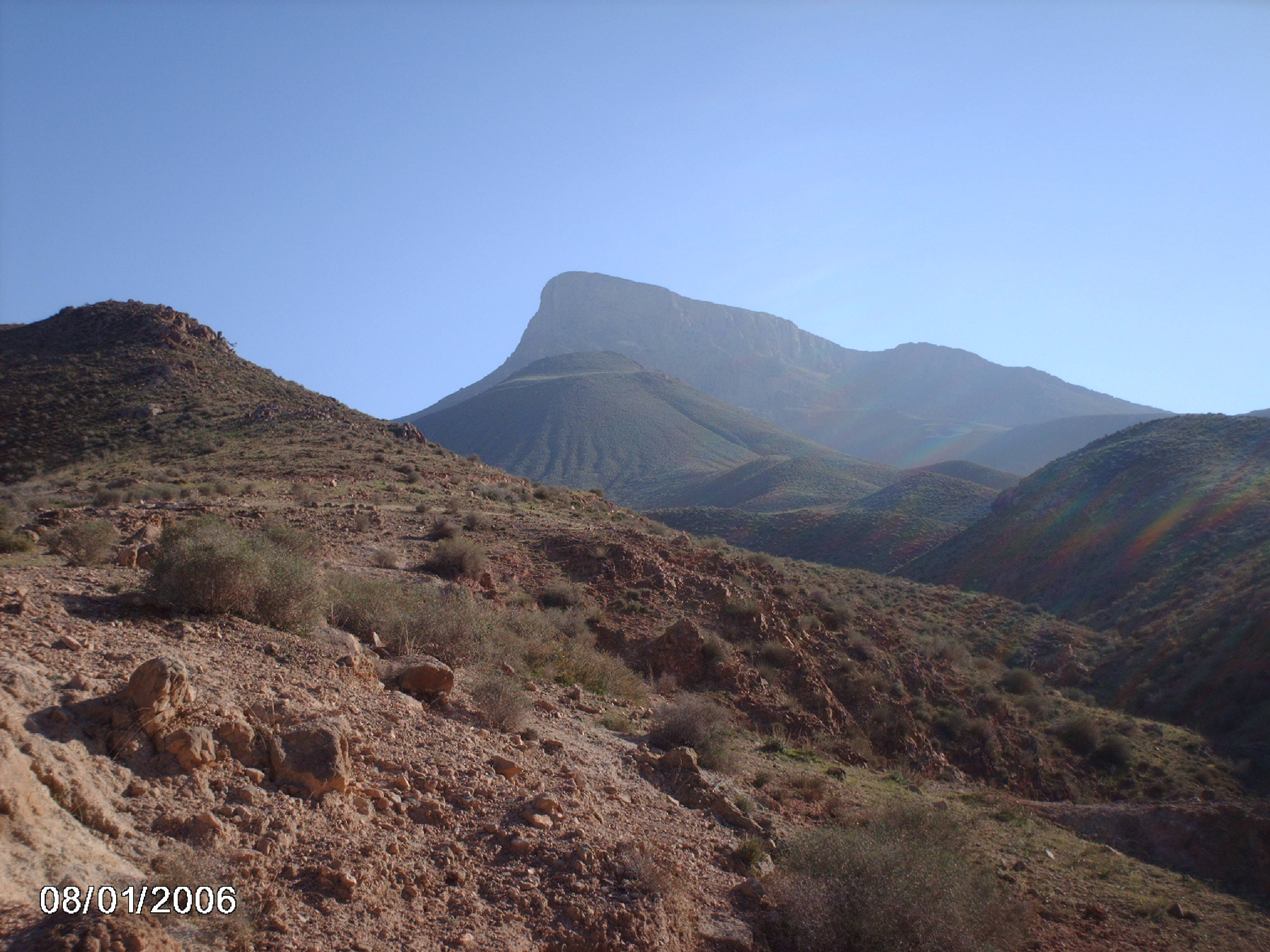 Mount 44 and to the city of Taourirt Morocco